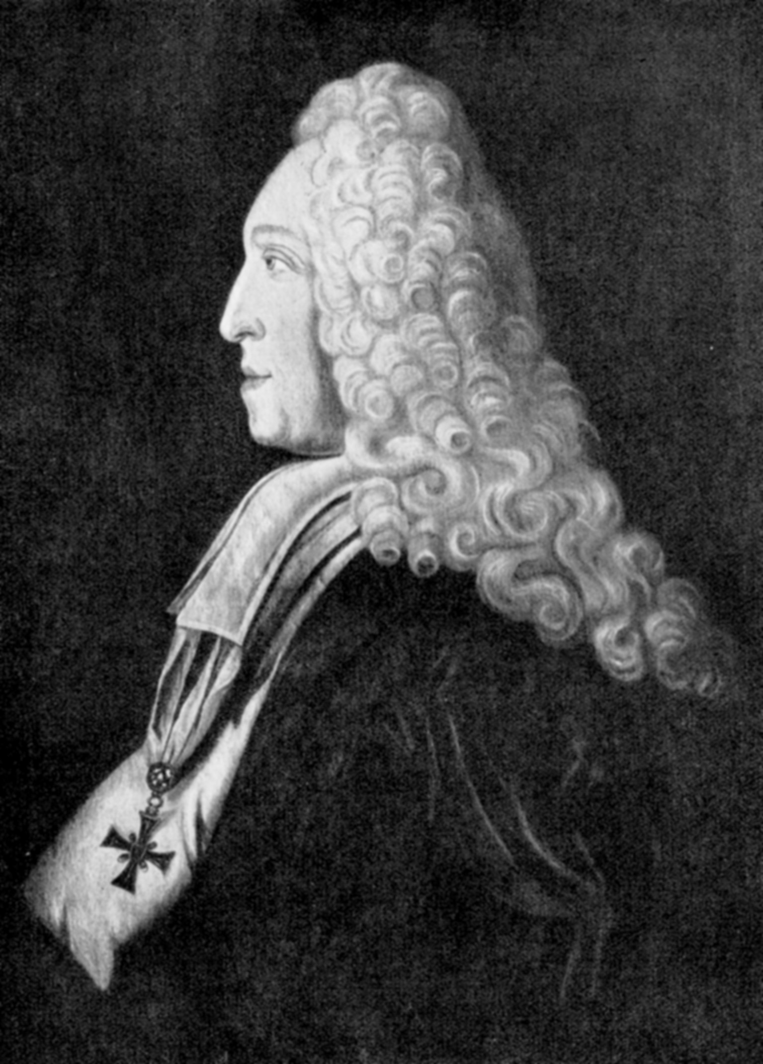 Portrait of Count Palatine Francis Louis of Neuburg (1664-1732)